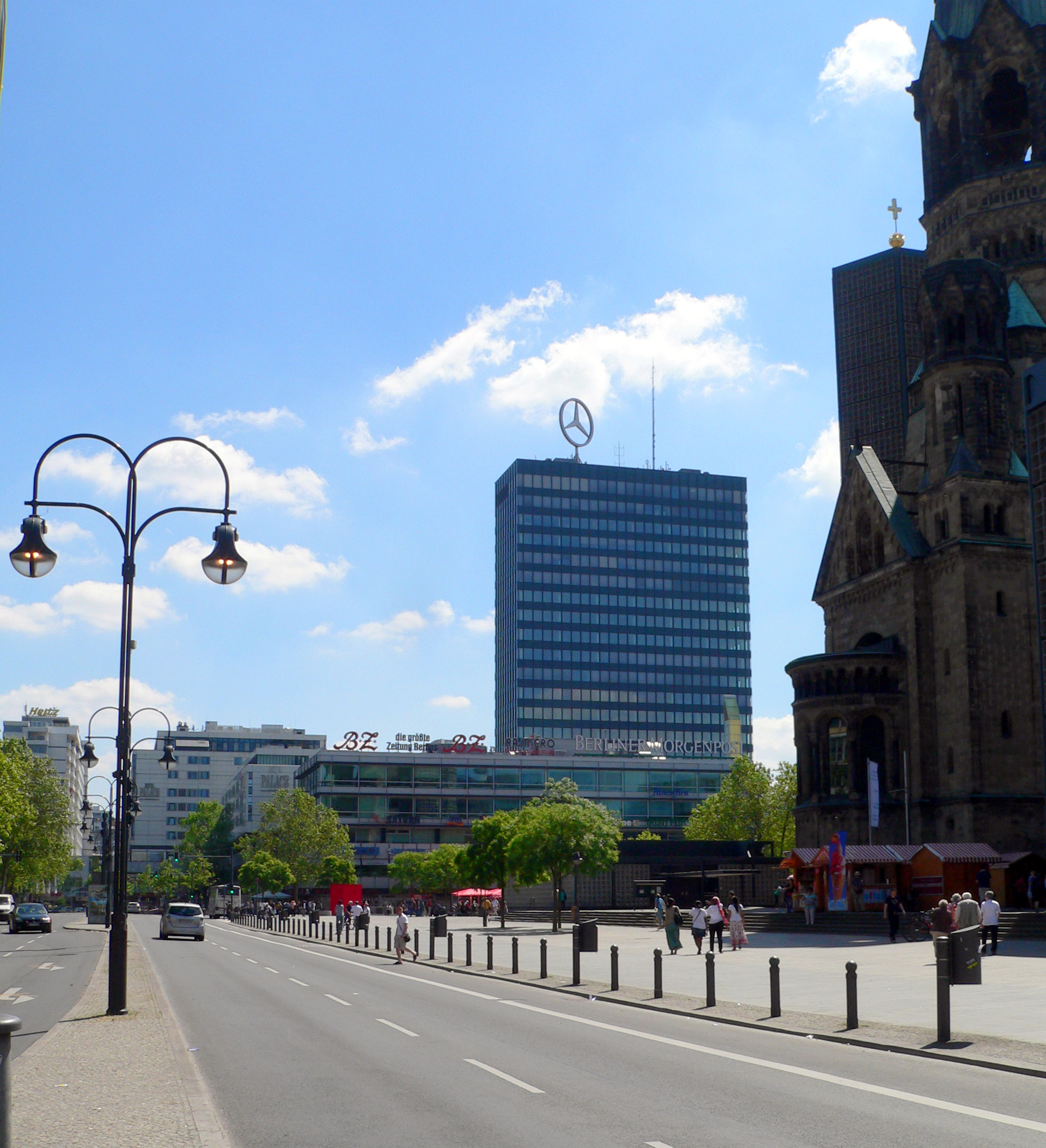 Berlin-Charlottenburg Budapester Straße with Europa-Center and Kaiser-Wilhelm-Gedächtniskirche